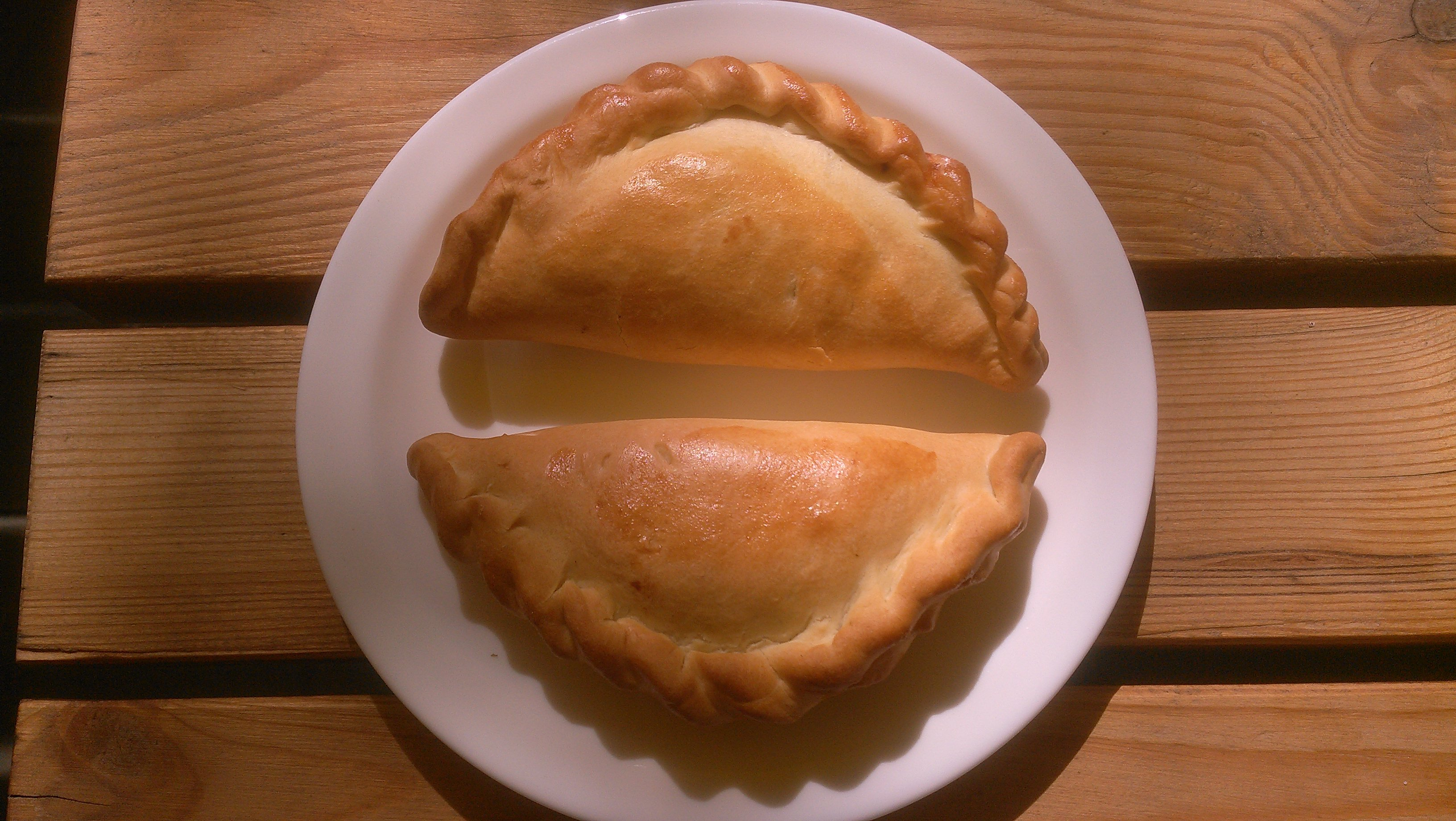 Kibinai - popular dish in Lithuanian cusine, introduced by Karaites in Trakai